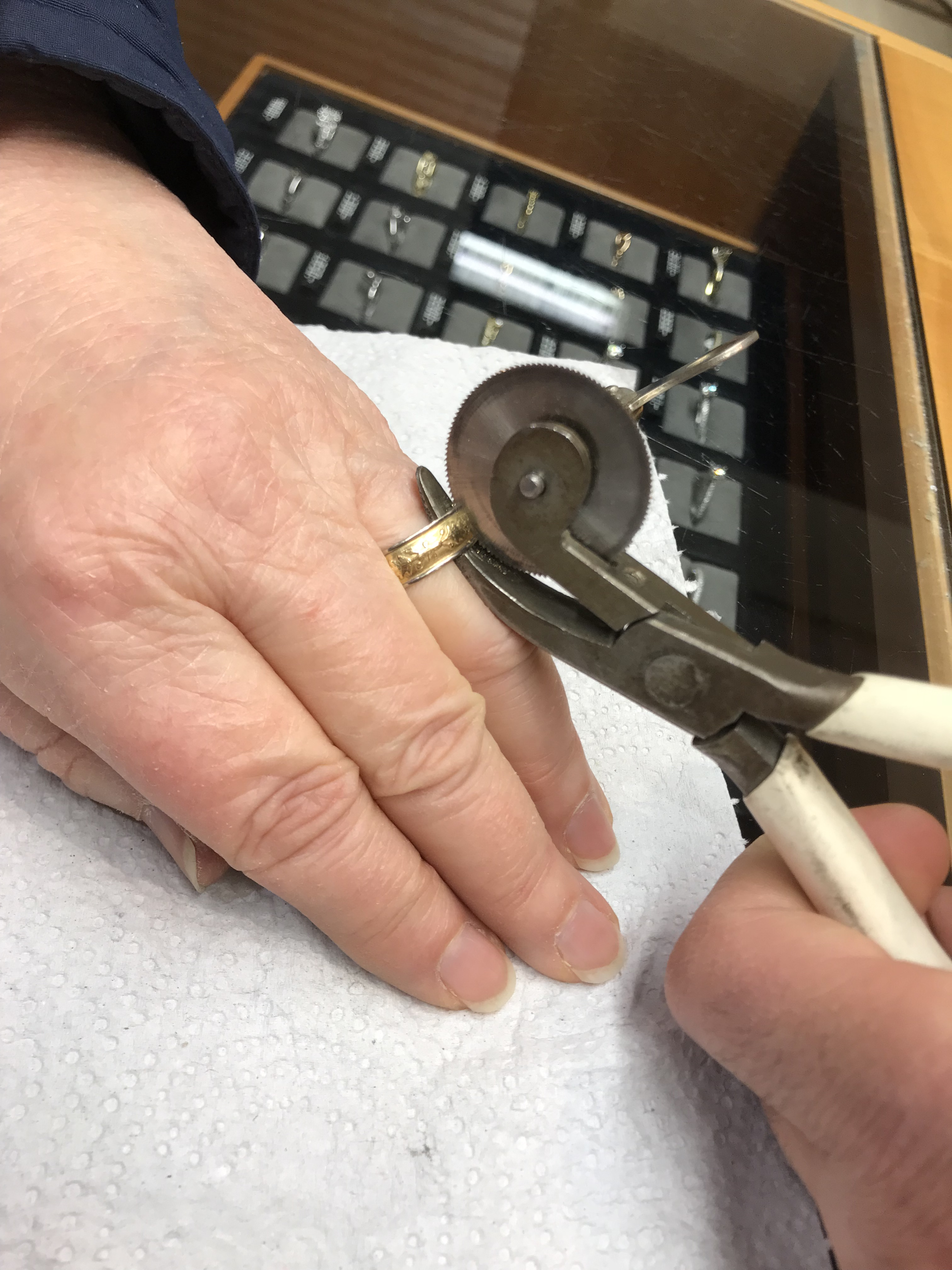 Pliers to cut off and remove tight rings that won’t come off fingers, with a circular saw.